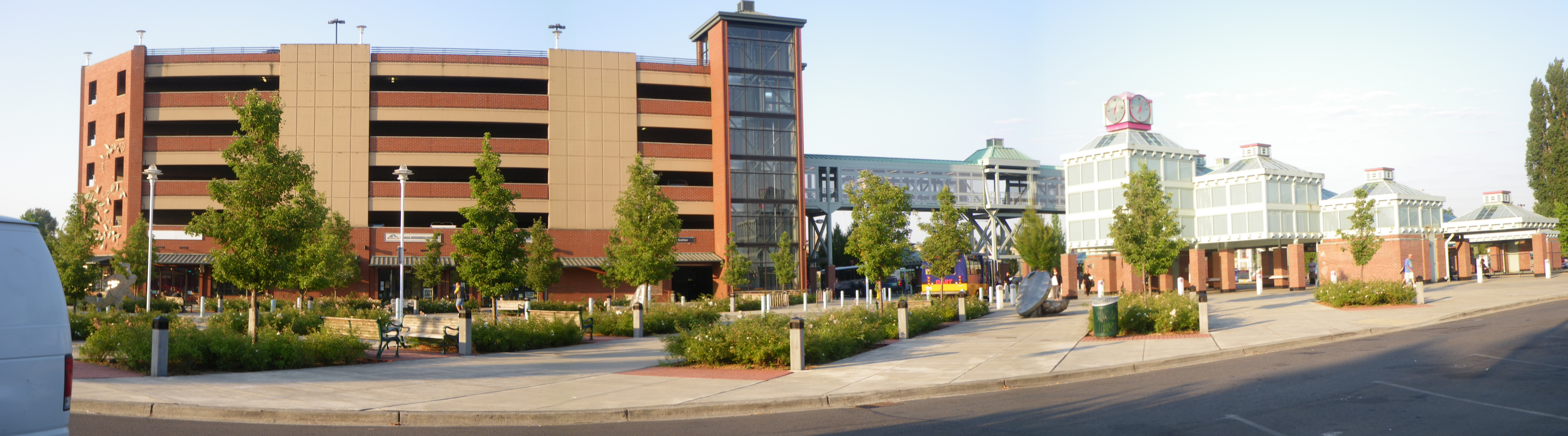 Panorama of Auburn's Sounder Transit Station